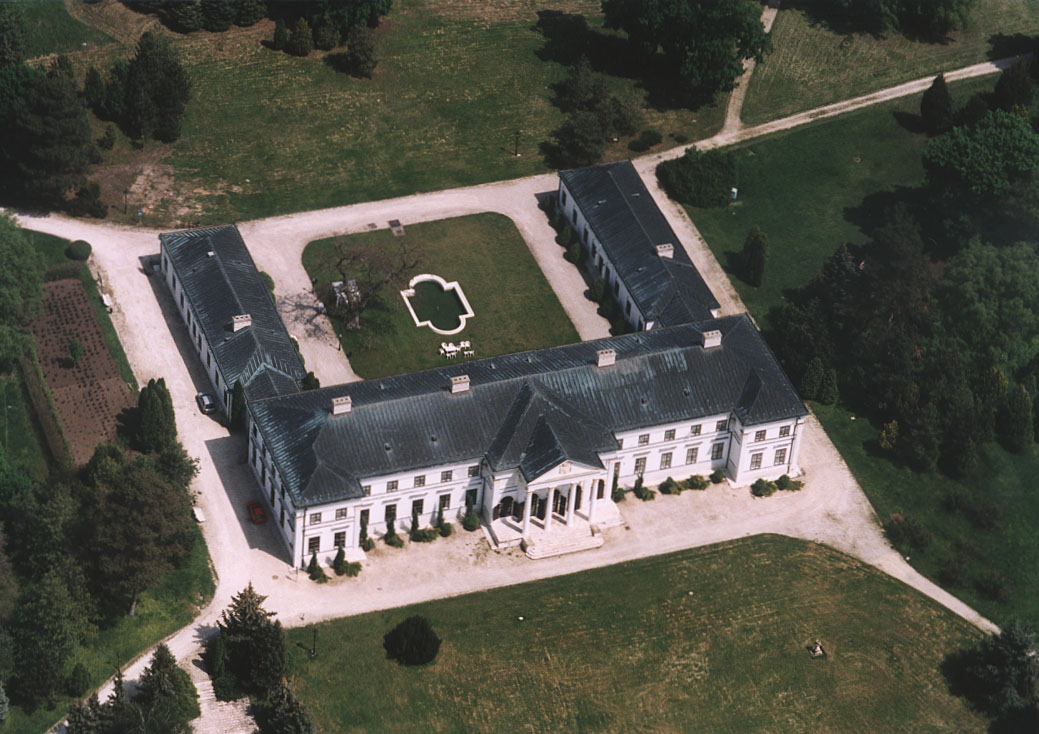 Palace - Seregélyes - Hungary - Europe